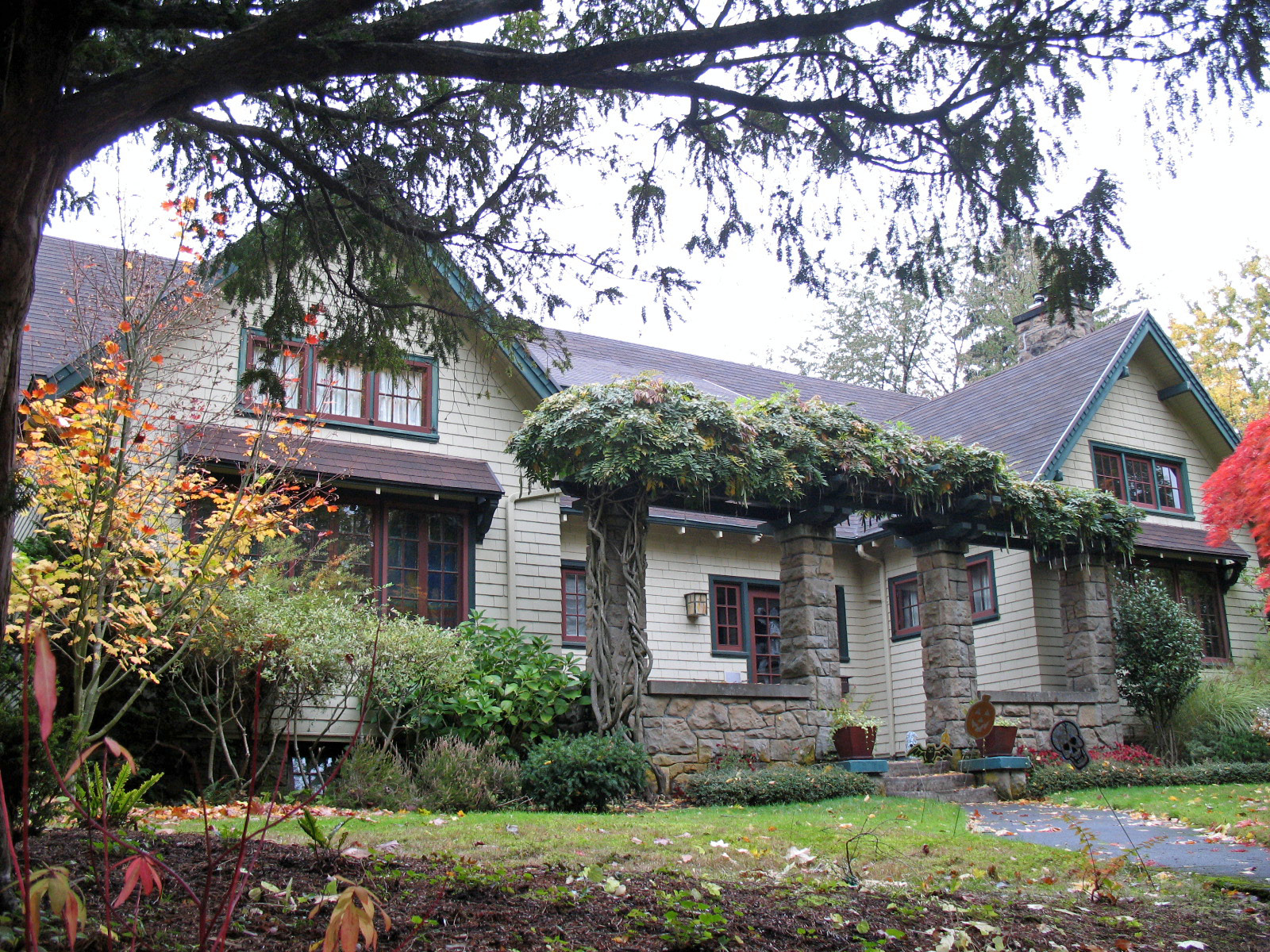 National Register of Historic Places listings in Northeast Portland, Oregon. Lewis T Gilliland House, 2229 NE Brazee St, Portland, OR. Photographed October 25, 2009 from the north side of NE Brazee St. between NE 22nd and NE 23rd Ave.